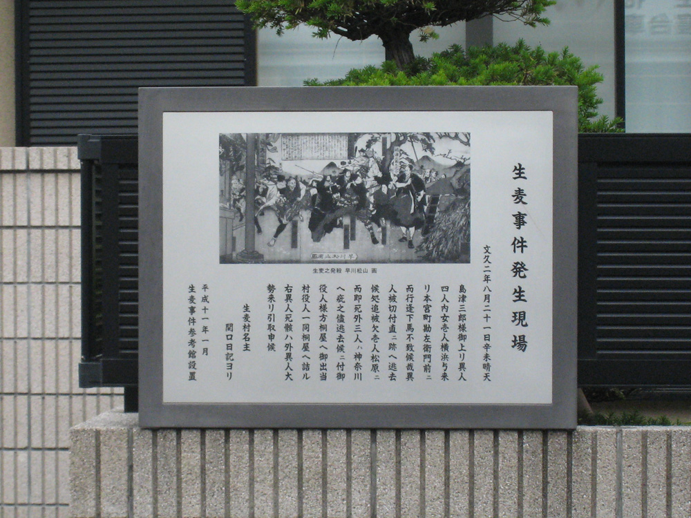 Signboard that shows place of Namamugu Incident